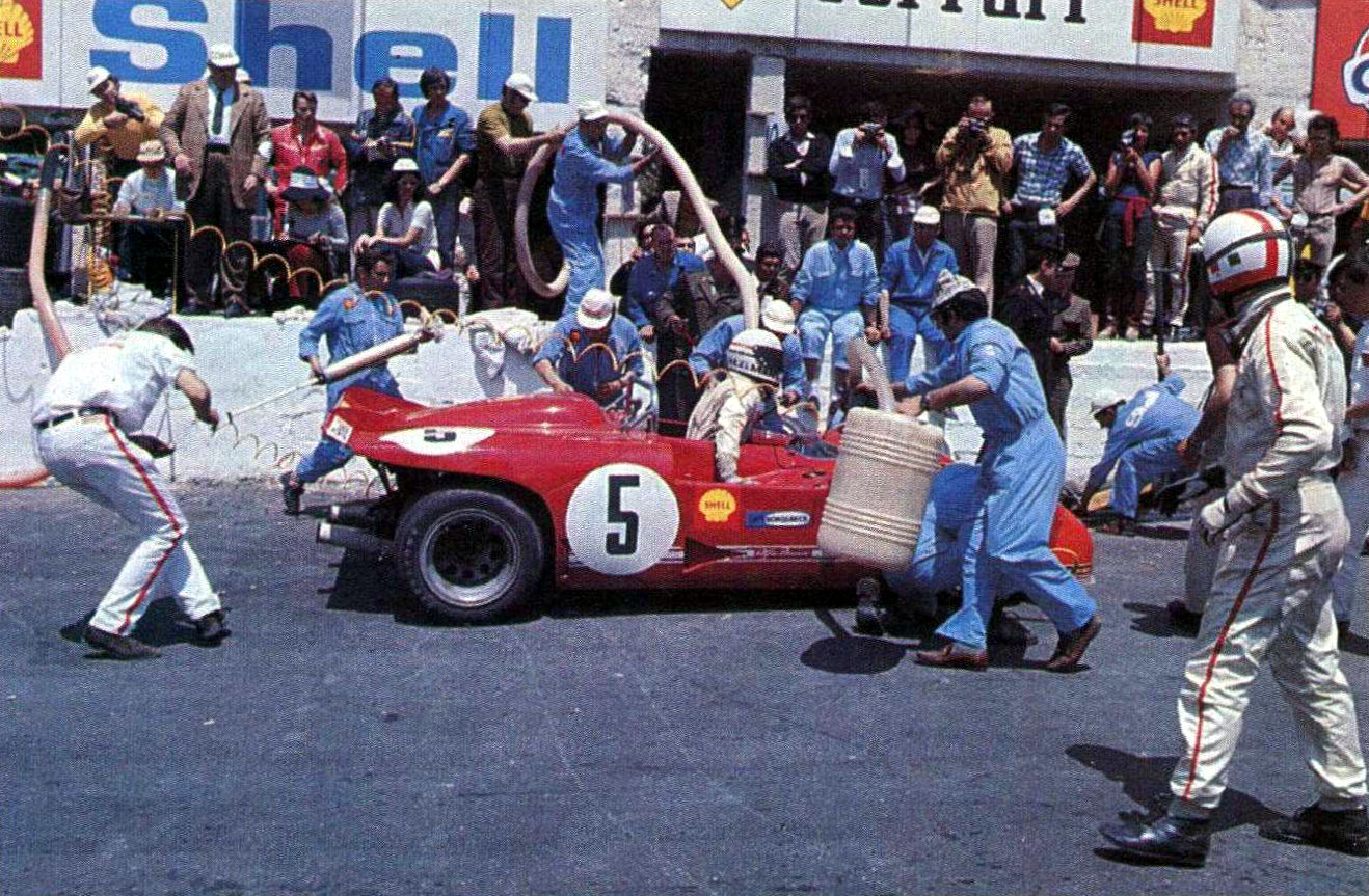 Province of Palermo (Sicily, Italy), "Piccolo Madonie" road circuit, May 16, 1971. Nino Vaccarella and Toine Hezemans' #5 Alfa Romeo 33/3 (Prototype 3-litre category) of Autodelta S.p.A., sponsored Royal Dutch Shell, in a pit stop during the victorious 1971 Targa Florio.